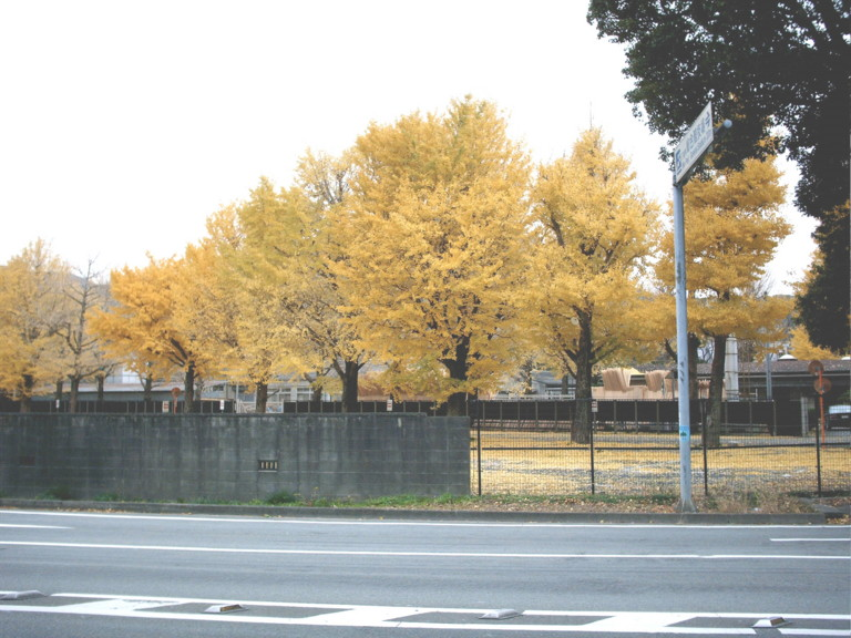 ginkgo trees of Jingu-Uji-kosakusho in Ise city Mie pref. Japan.